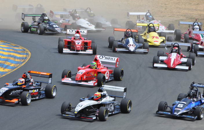 Start at Formula Car Challenge Race - Turn 2 at Infineon Raceway